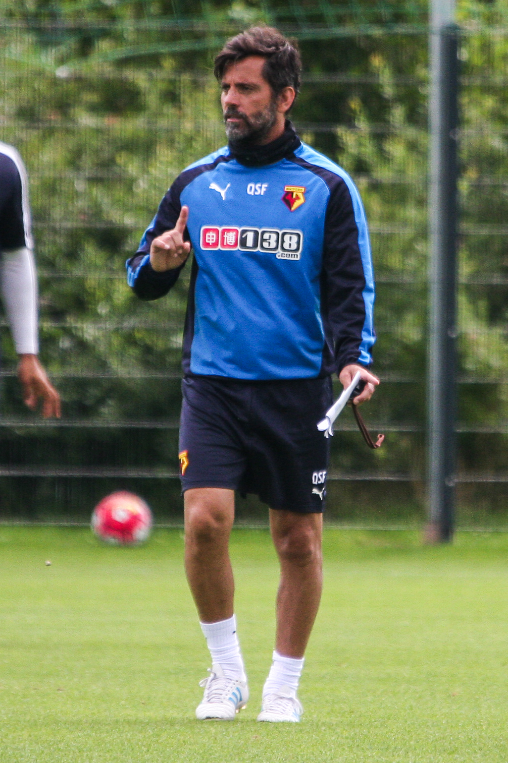 Quique Flores at Watford FC training in the 2014/15 preseason